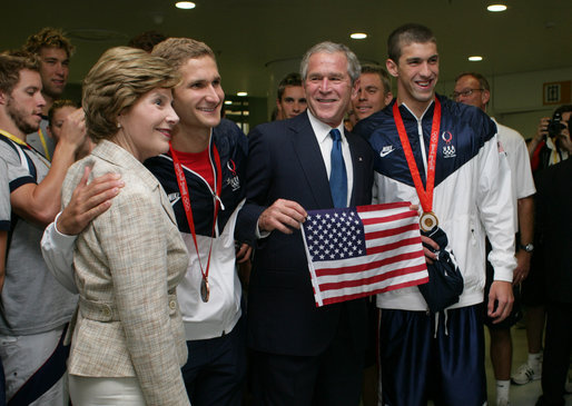 President George W. Bush and Mrs. Laura Bush pose for photos with U.S. Olympic swimmers Larsen Jensen, left, and Michael Phelps Sunday, Aug. 10, 2008, at the National Aquatics Center in Beijing.